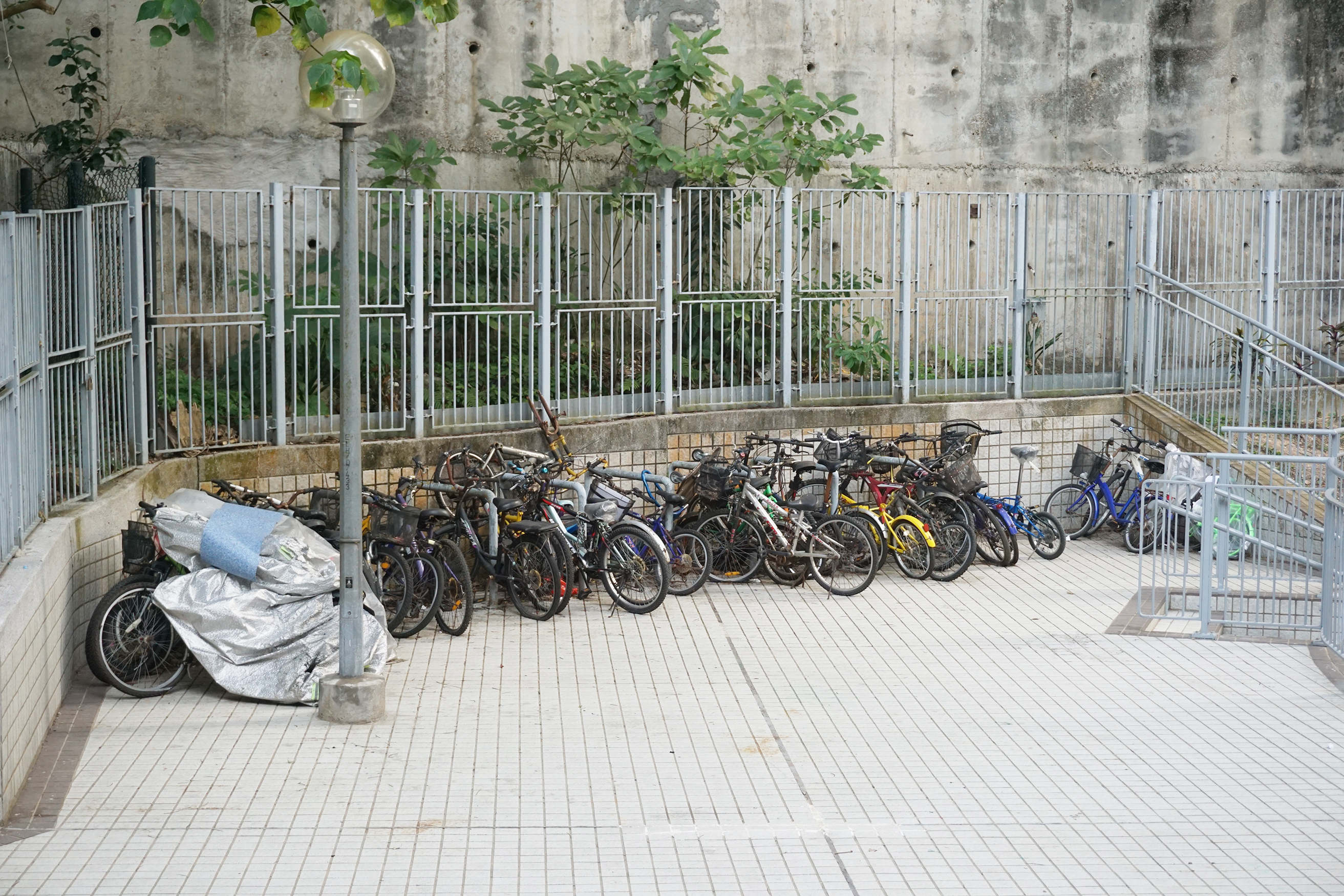 Lung Hang Estate in Tai Wai, Hong Kong.